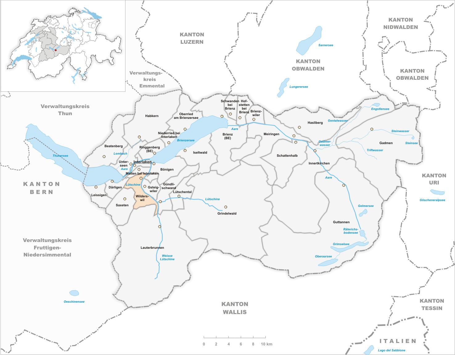 Municipality Wilderswil